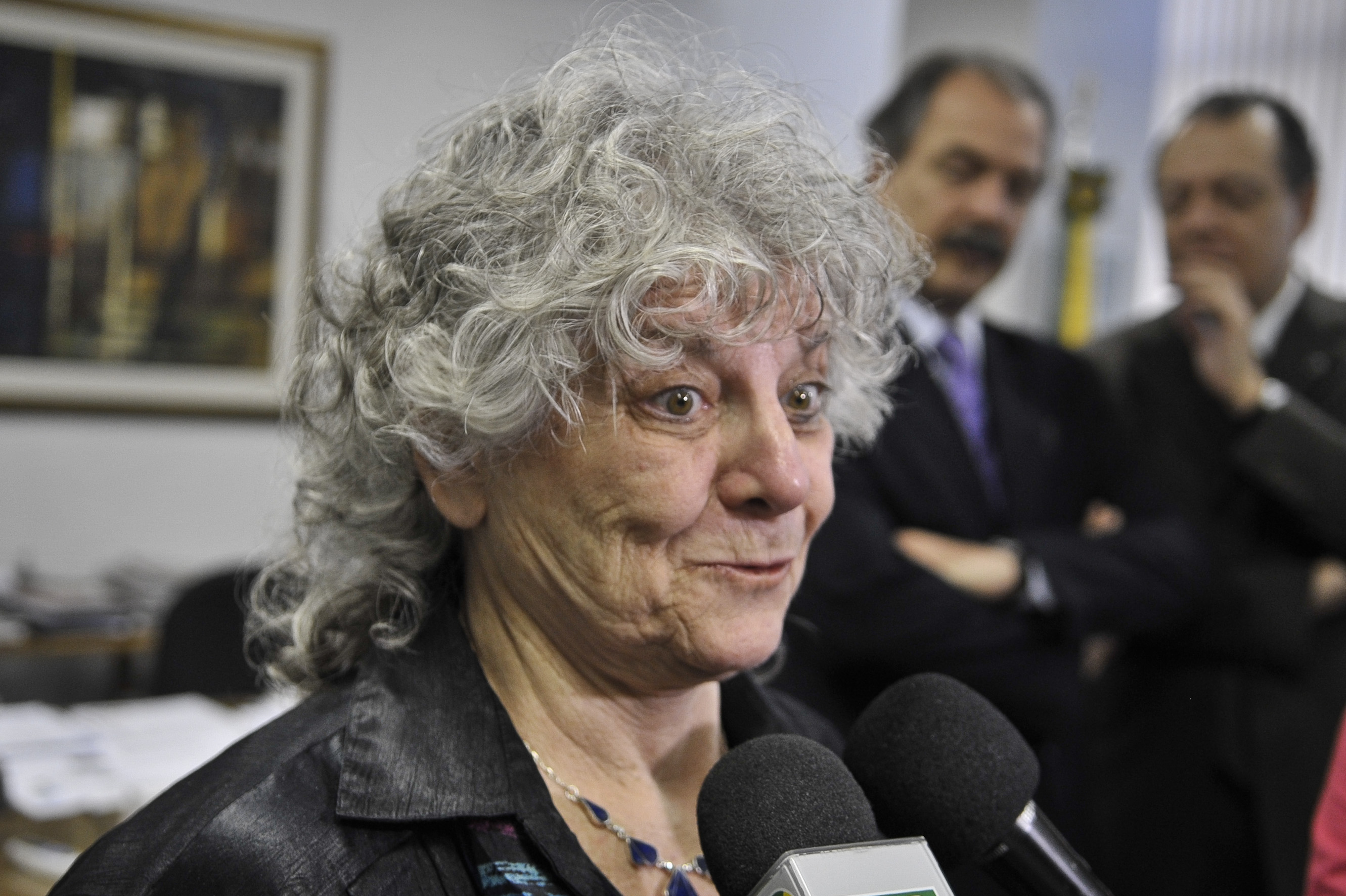 Chemistry Nobel Prize Ada Yonath during press conference at Brazil's Ministry of Science and Technology, hosted by minister Mercadante